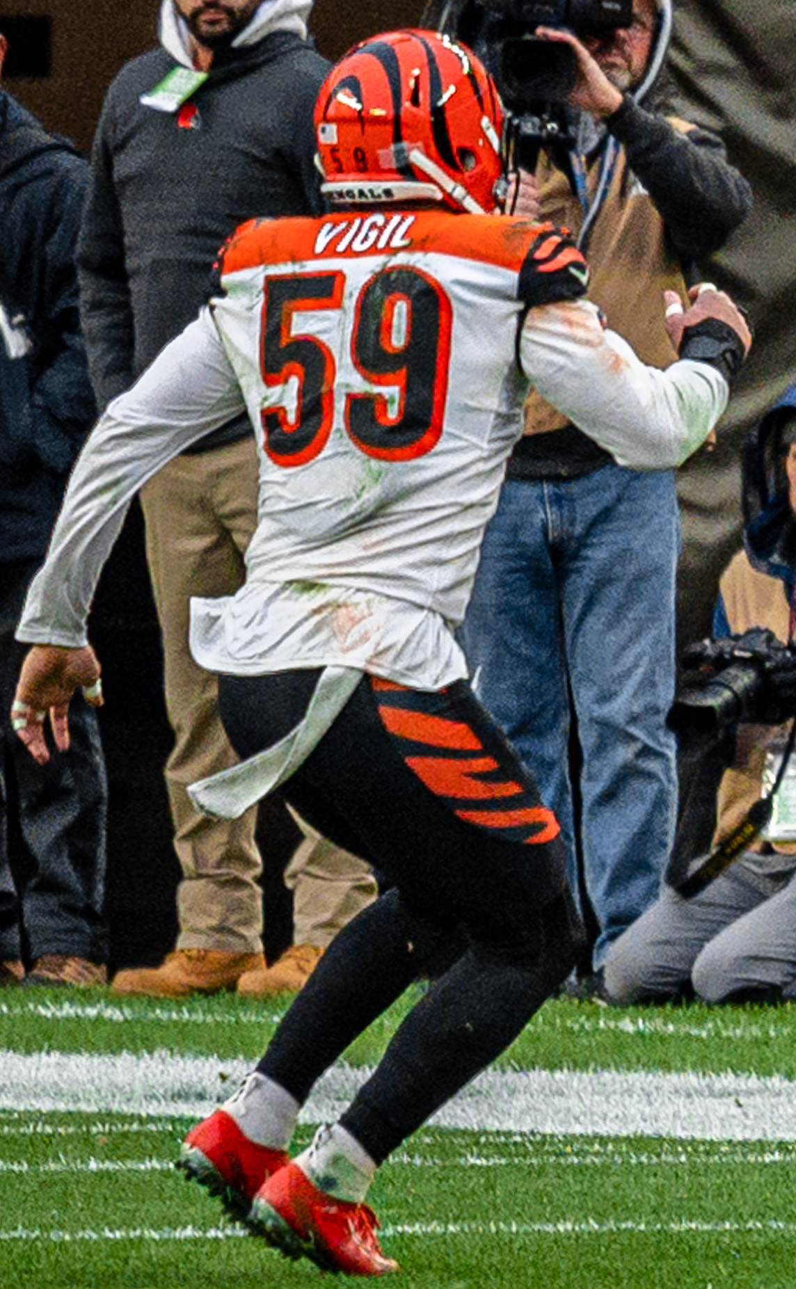 Nick Chubb